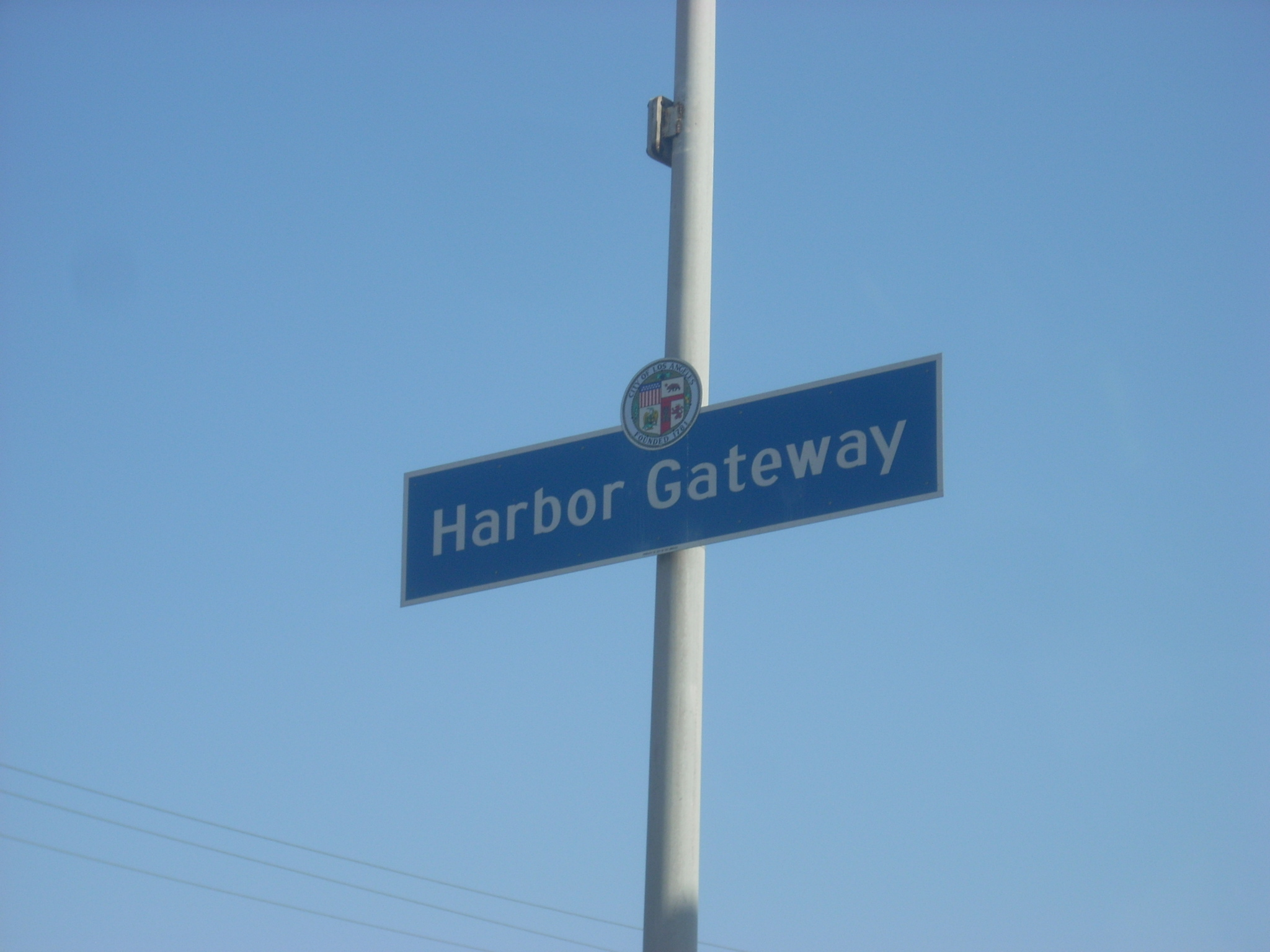 Picture of Harbor Gateway neighborhood sign in Los Angeles, near Rosecrans Blvd.